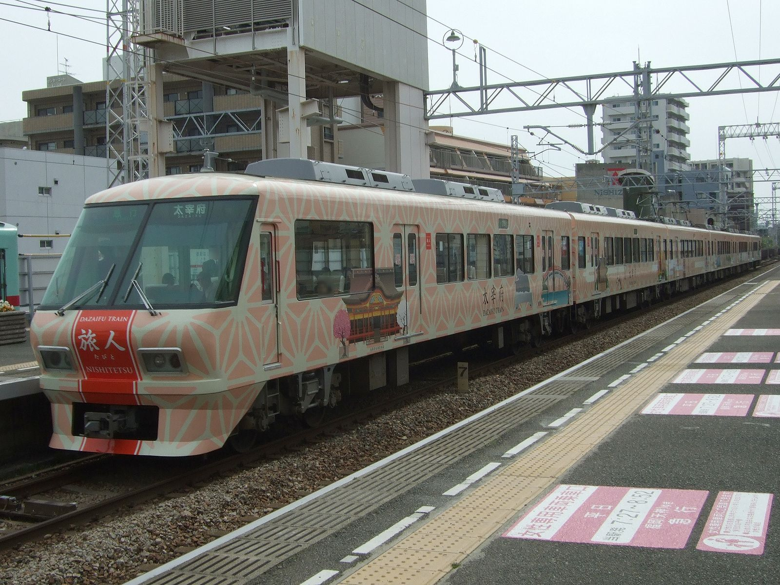 Nishi Nippon Railroad EMU Type8000 "Tabito" / Formation:8051-8052-8053-8054-8055-8056 / Location:Ohashi Station, Minami Ward, Fukuoka City, Fukuoka, Japan.